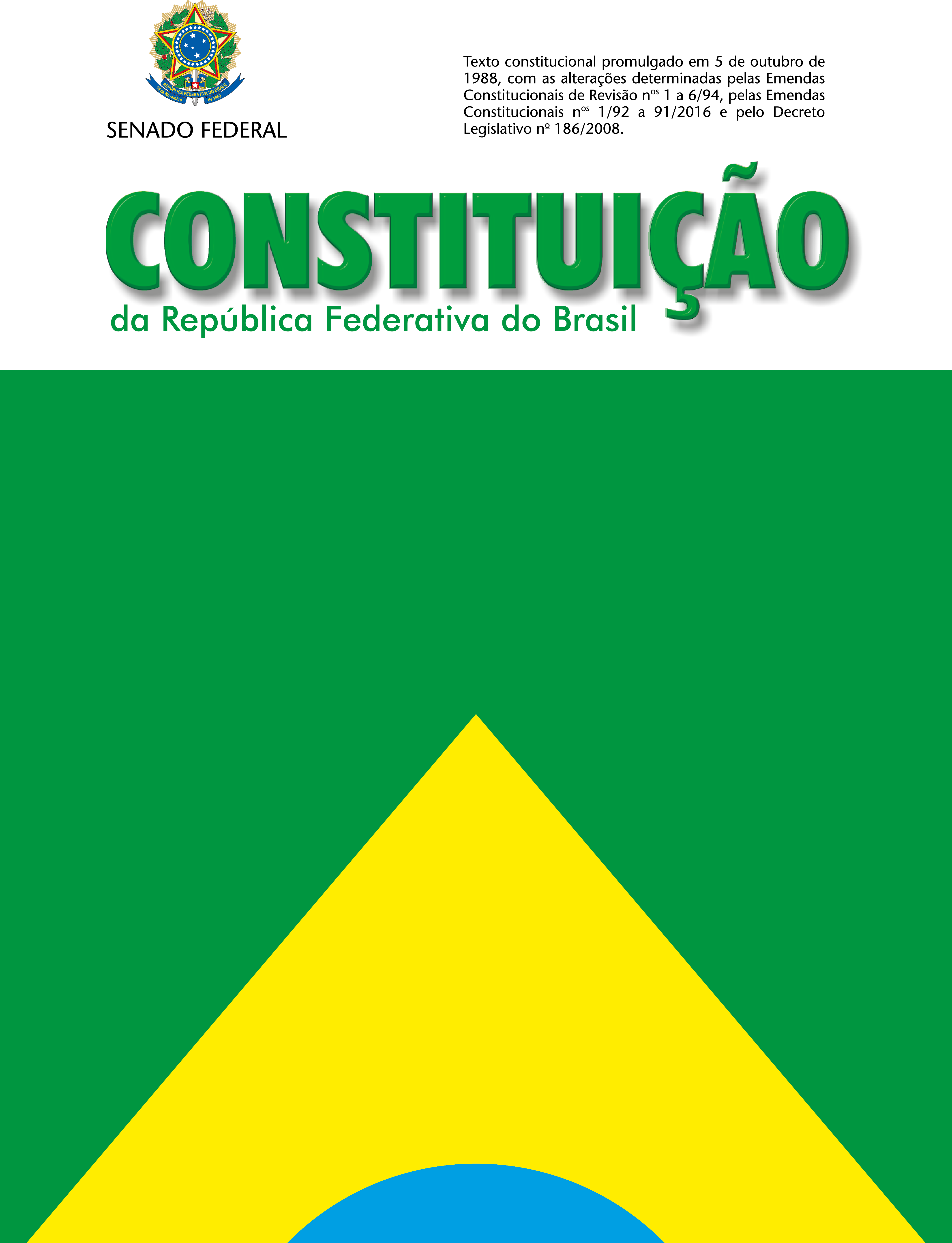 Cover of the Constitution of the Federative Republic of Brazil of 1988, created by Cosme Rocha.